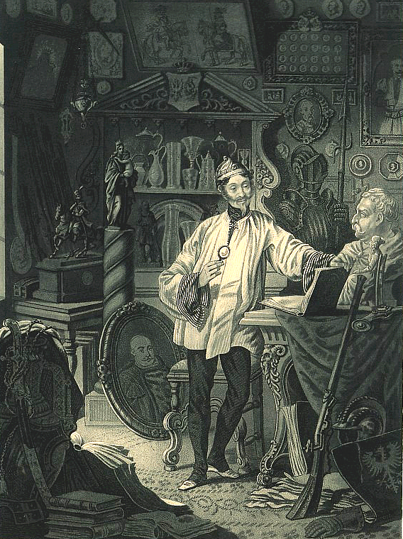 Collection of Polish antiquities of Adolf Cichowski in Paris